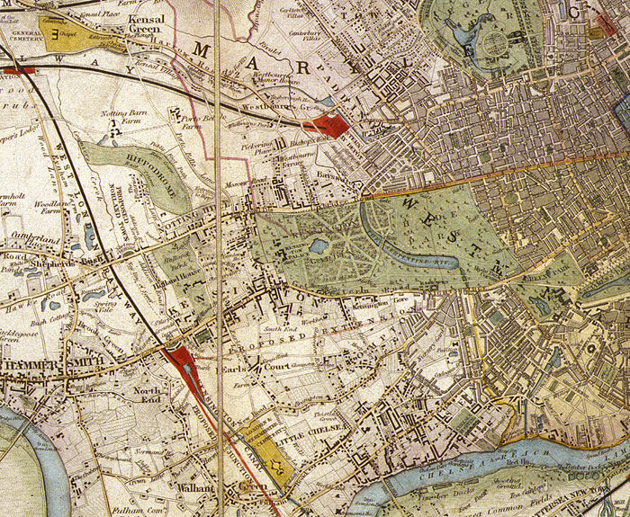 Environs of London by Davies, 1841